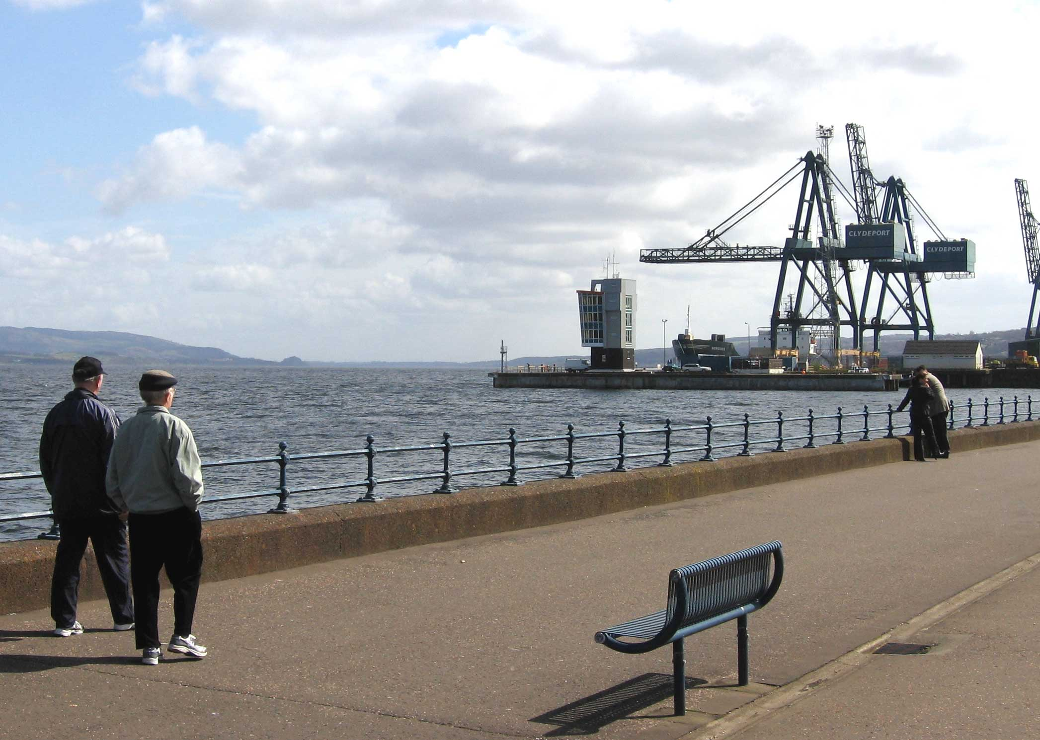 The east end of Greenock esplanade, with a small container at Prince's Pier, Ocean Terminal, Scotland